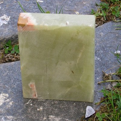 Unpolished green jade from China. Traces of brown/orange jade is seen in the corner.